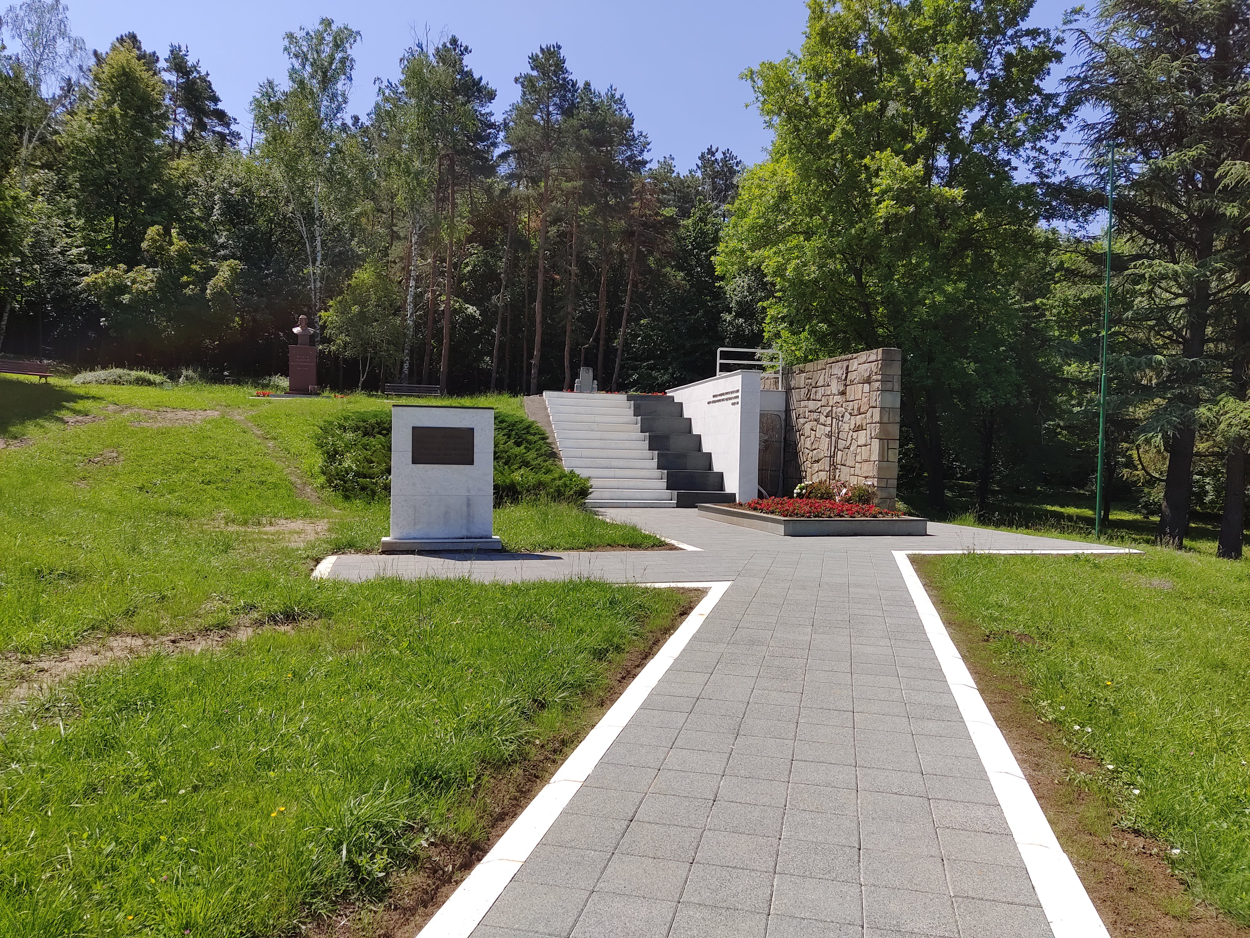 The Ossuary memorial to Red Army fallen soldiers in 1944, Čačalica, Požarevac